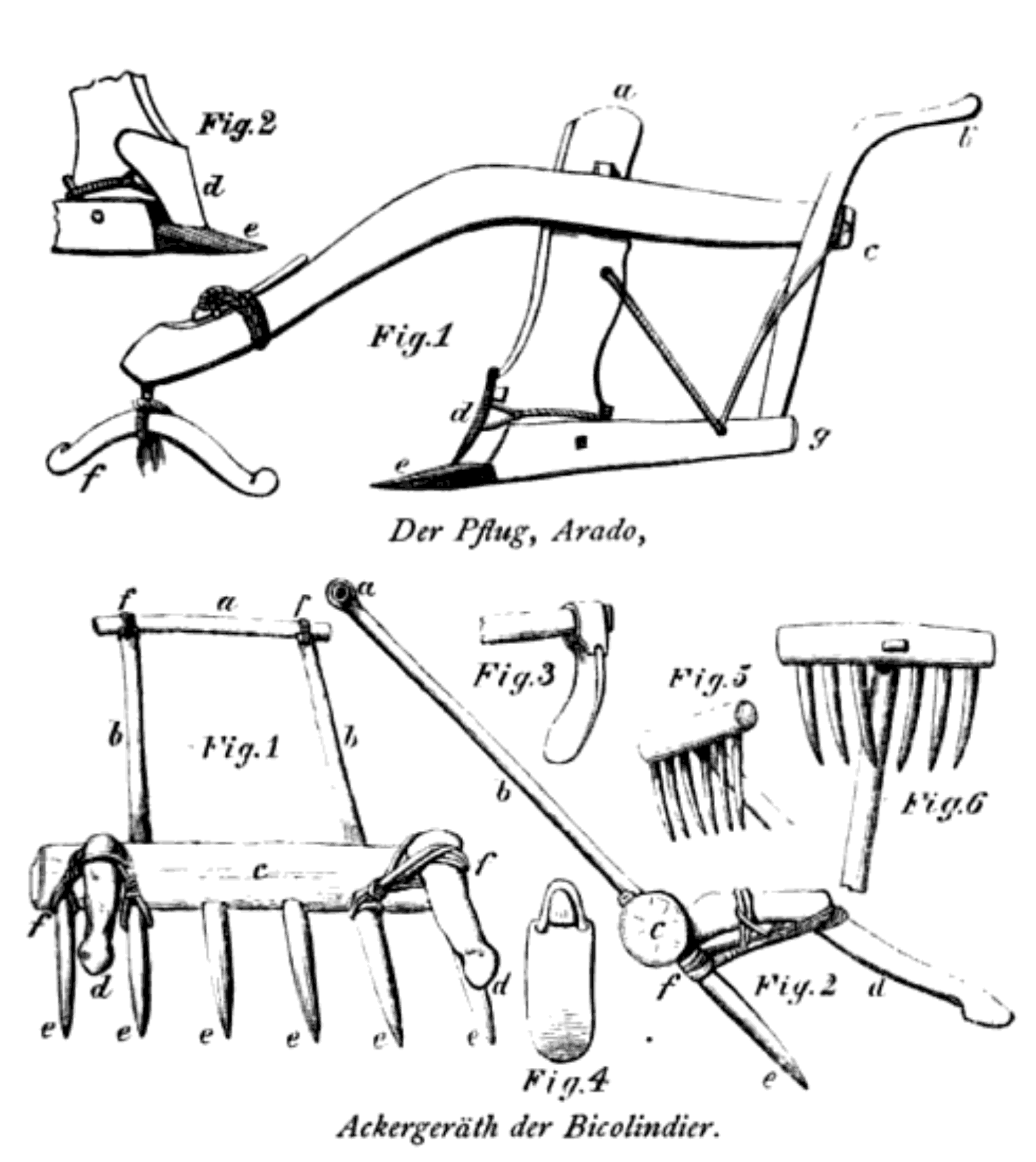 Traditional Filipino water buffalo plows